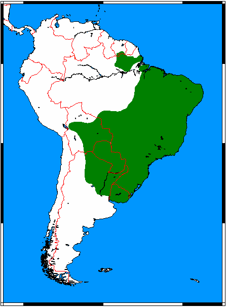 Range map for Six-banded Armadillo (Euphractus sexcinctus), made by me with help of Map depending on the range map at IUCN red list.